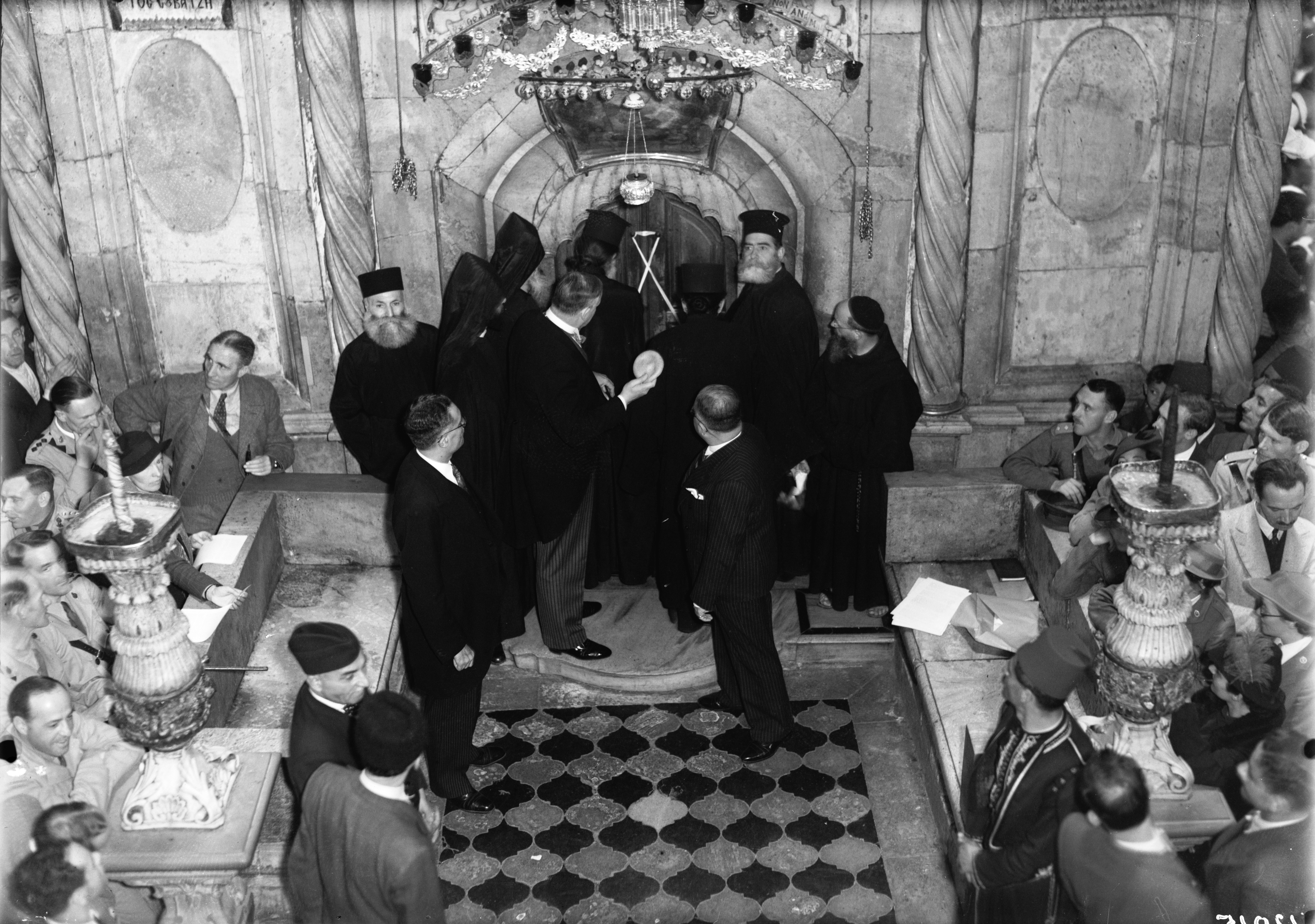 Calendar of religious ceremonies in Jer. [i.e., Jerusalem] Easter period, 1941. Orthodox Holy Fire.